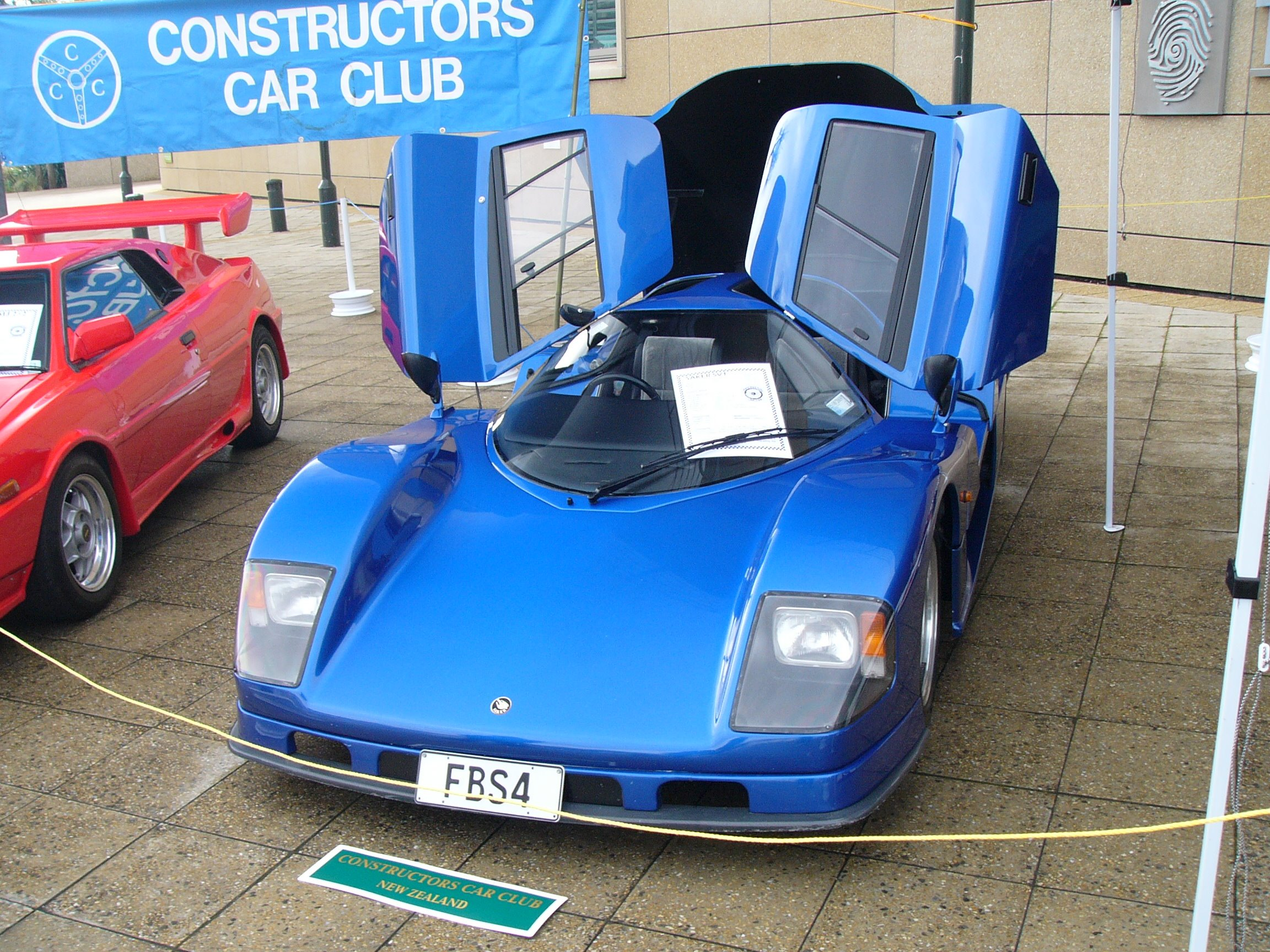 Photos taken at TePapa, Museum of New Zealand, Wellington